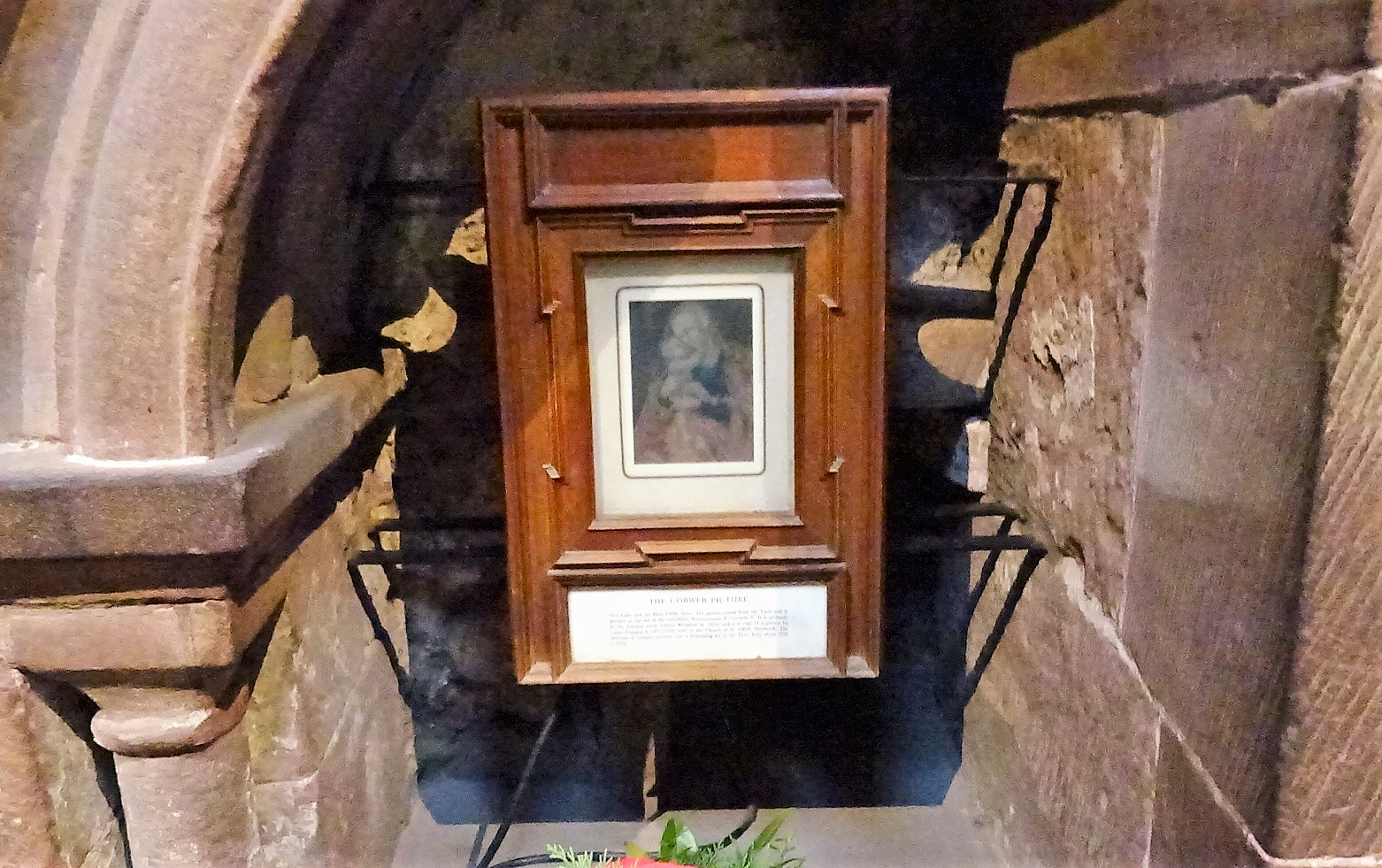 Cobweb painting, Chester Cathedral, England. Usually made in the Austrian Tyrolean Alps, carried out by monks who produced paintings on canvases made entirely of spiders' webs or caterpillars' silk. These religious miniatures were usually painted for convents, other religious institutions, the middle classes, and the minor aristocracy. This example is on caterpillar silk.